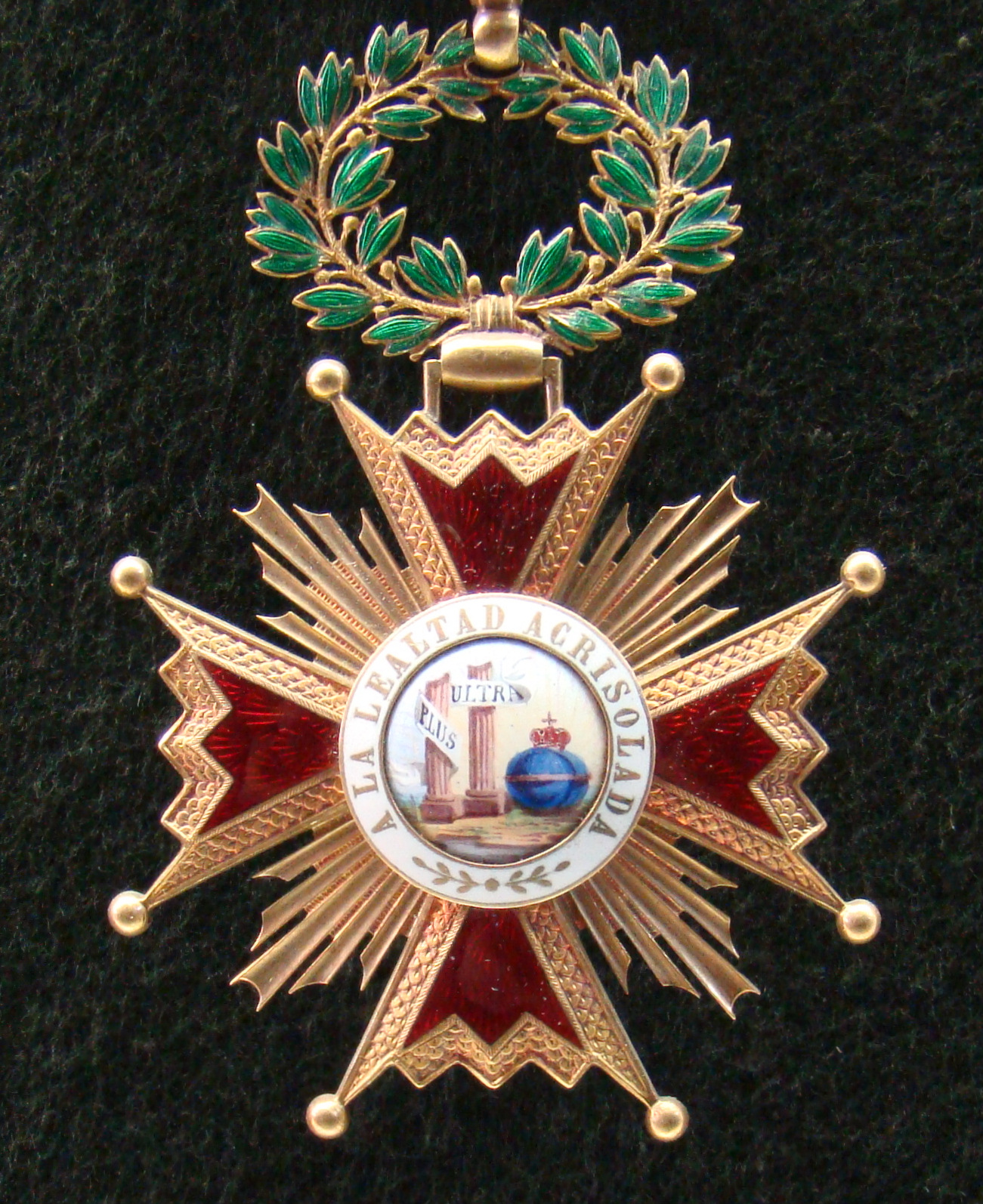 The Spanish Order of Isabella the Catholic.